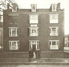 Photograph of the original building of St. John's Literary Institution located on East Second Street in Frederick, Maryland